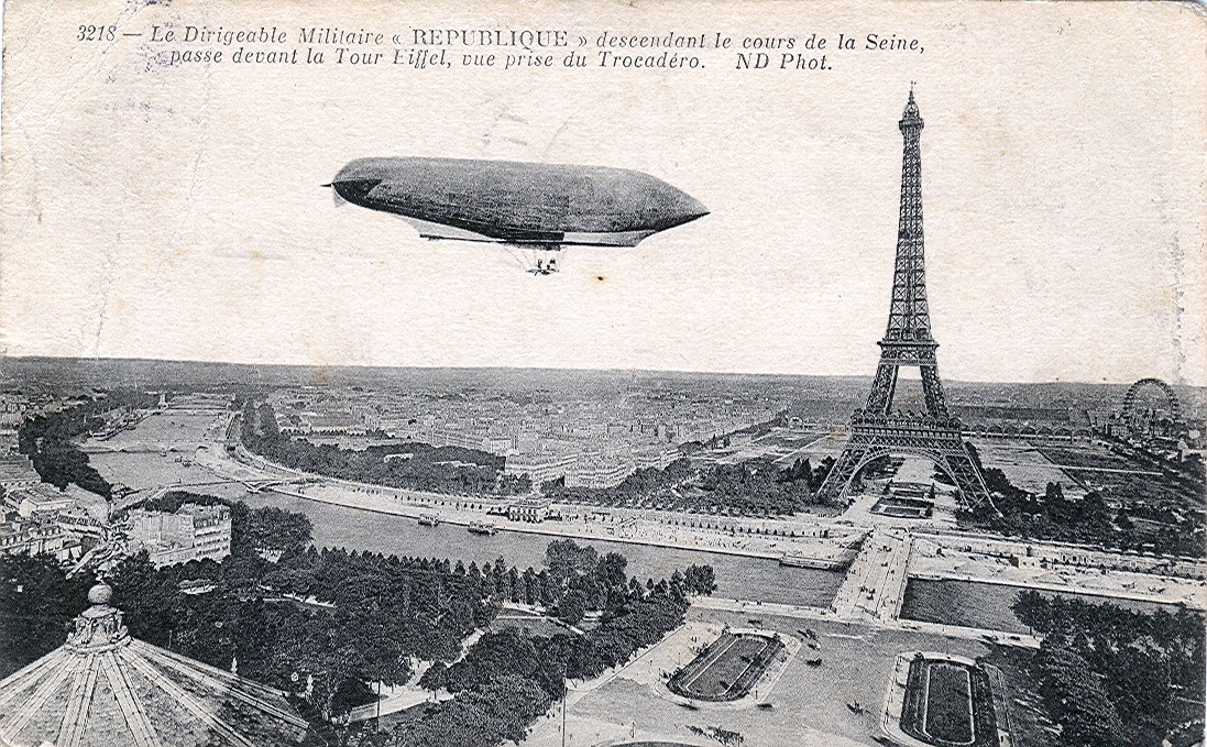 Postcard, dated 18.12.1913. Title: "The military airship Republique over Seine river passing the Eiffel tower with view on Trocadero"